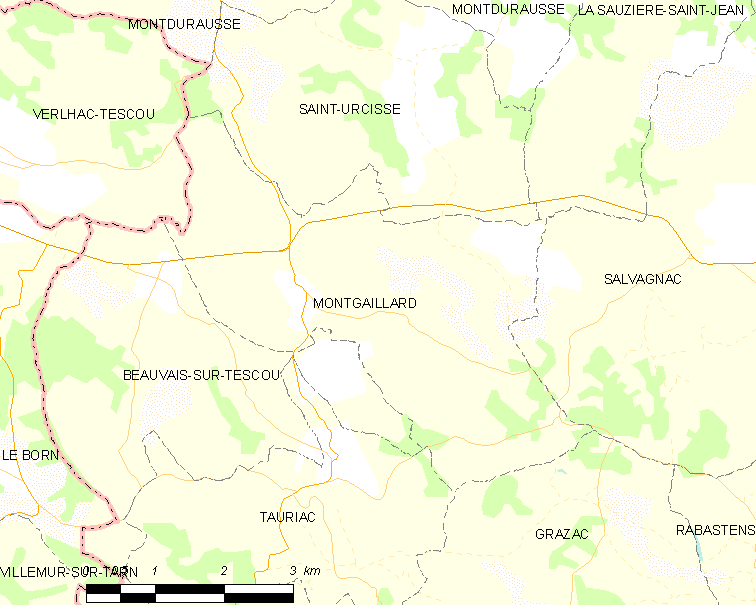 Map of French municipality Montgaillard